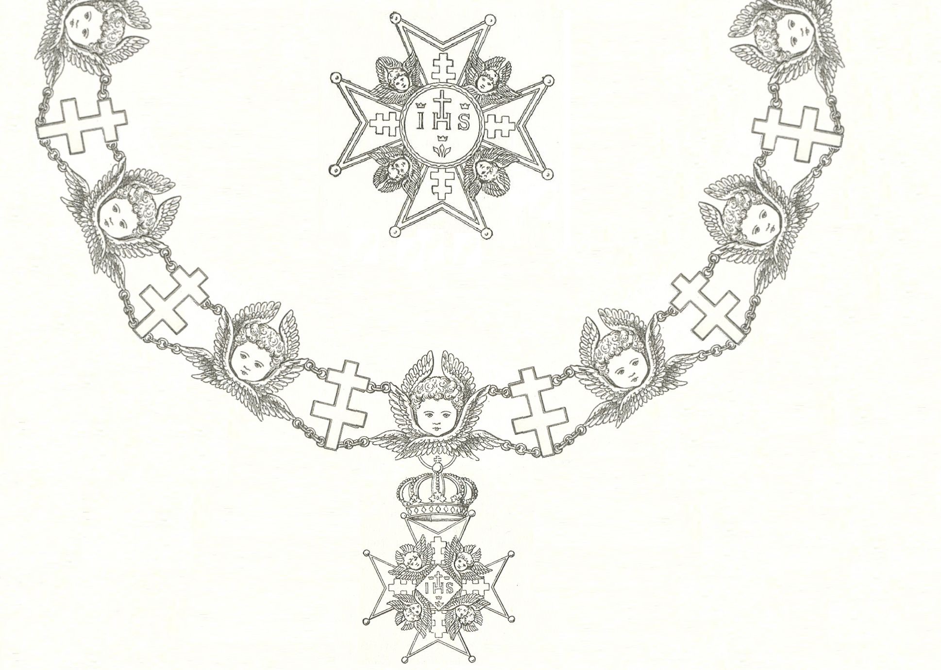 Collar and star of the Orderof the Seraphim